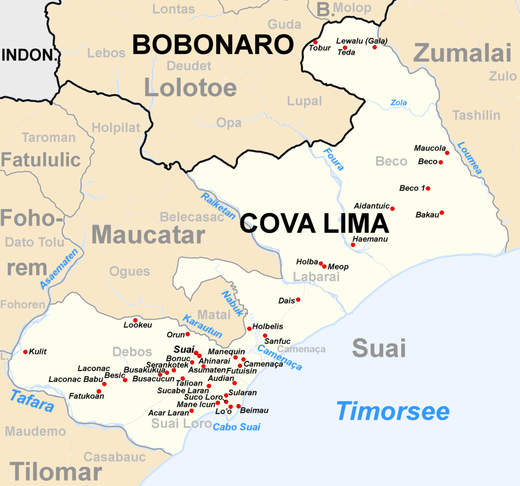 Administrative map of the Suai subdistrict of East Timor